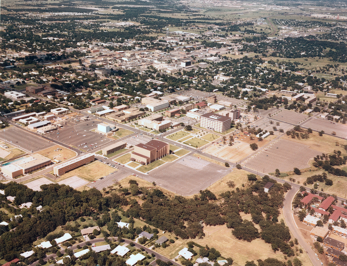 Aerial photograph looking north east, University of Texas at Arlington campus.